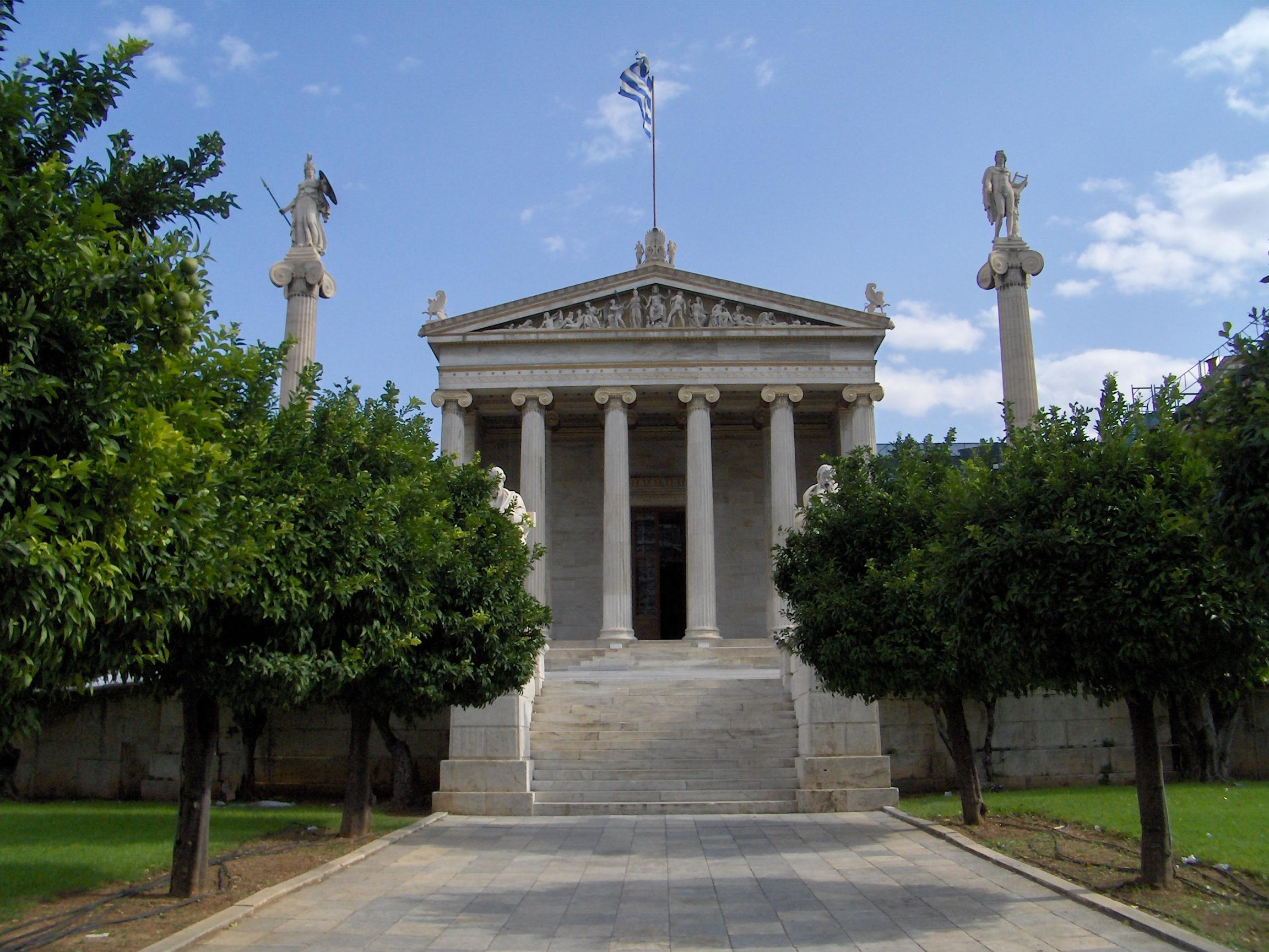 Athens Academy